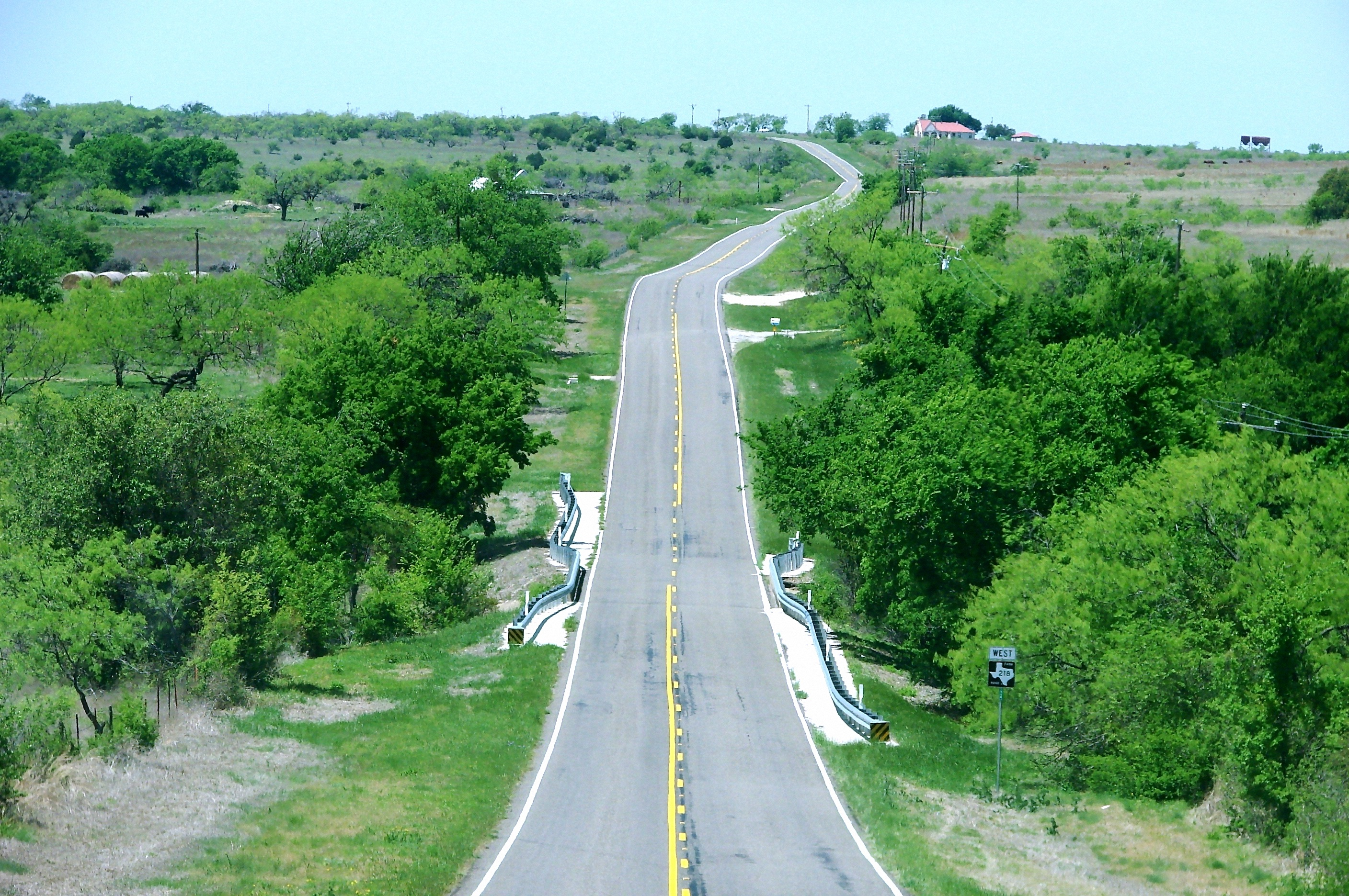 Central Texas farm road FM 218, West of Hamilton, Texas.